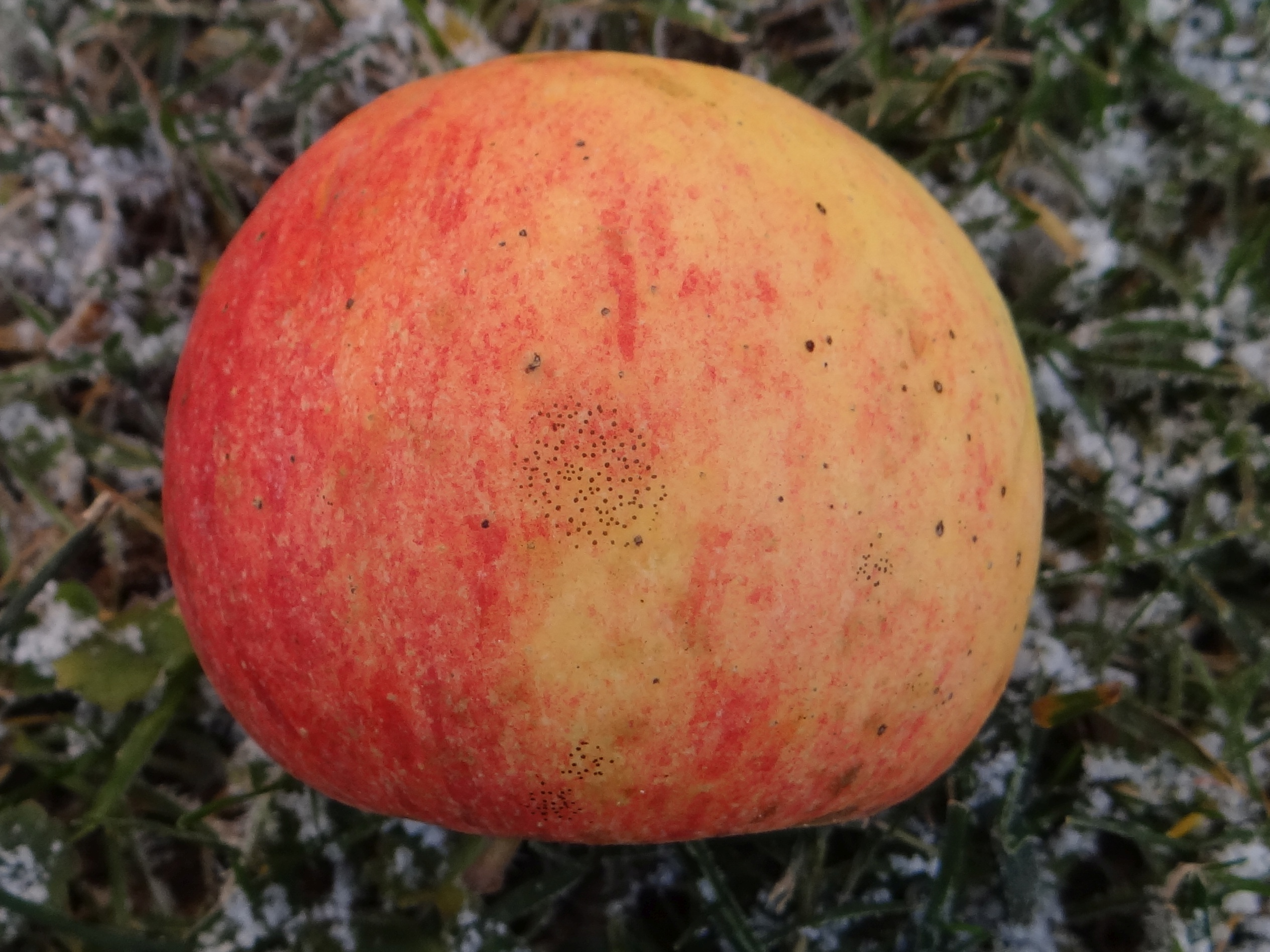 Flyspeck on apple